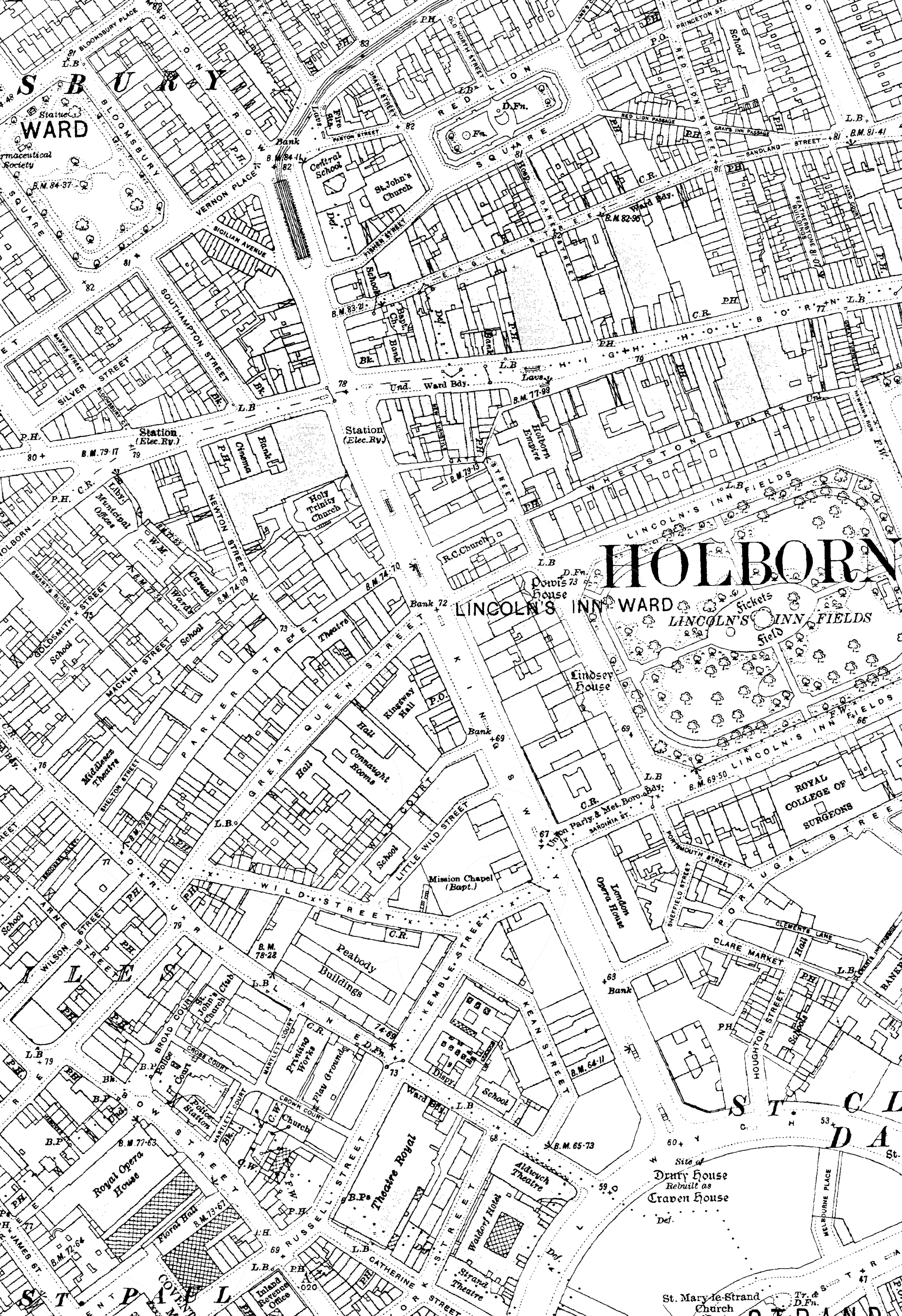 Kingsway